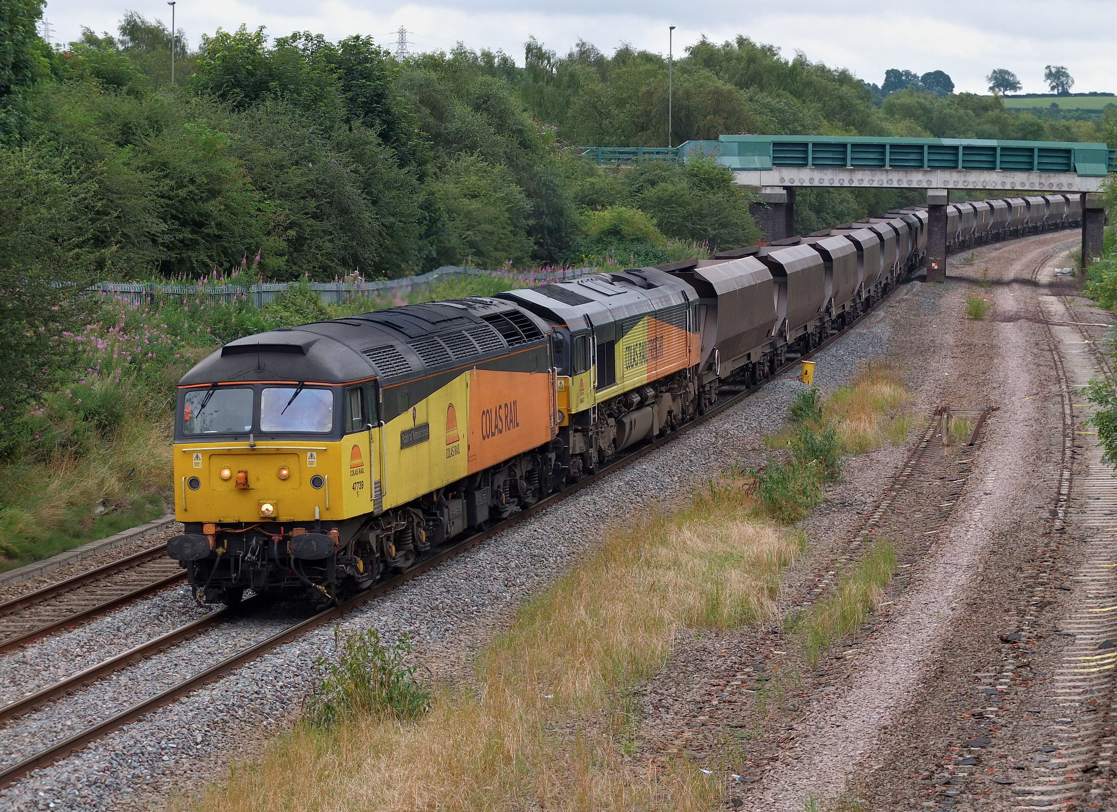 47739 "Robin of Templecombe" with 66847 dead in tow passes Claycross working 4Z43 Chaddesden - Wolsingham empty hoppers